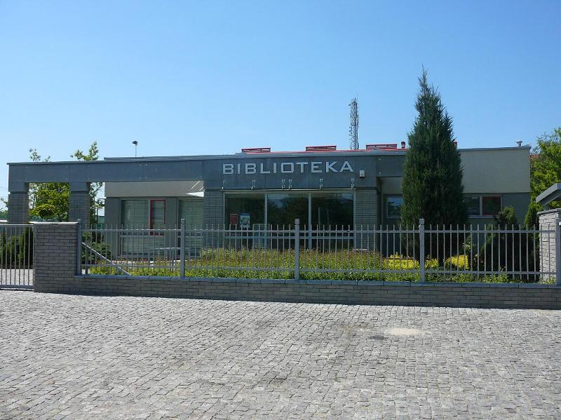 The library in Raszyn